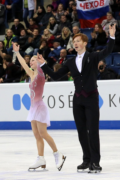 Evgenia Tarasova and Vladimir Morozov at the 2016 European Figure Skating Championships.